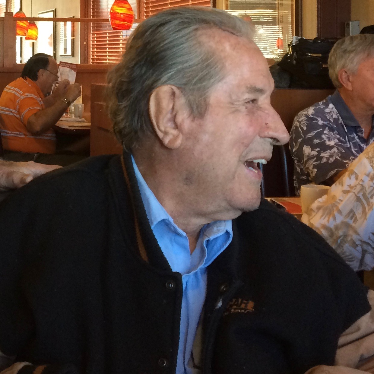 World War II B-17 pilot, Colonel Jay Walker, at the Old Bold Pilots Association in Oceanside, California in 2014